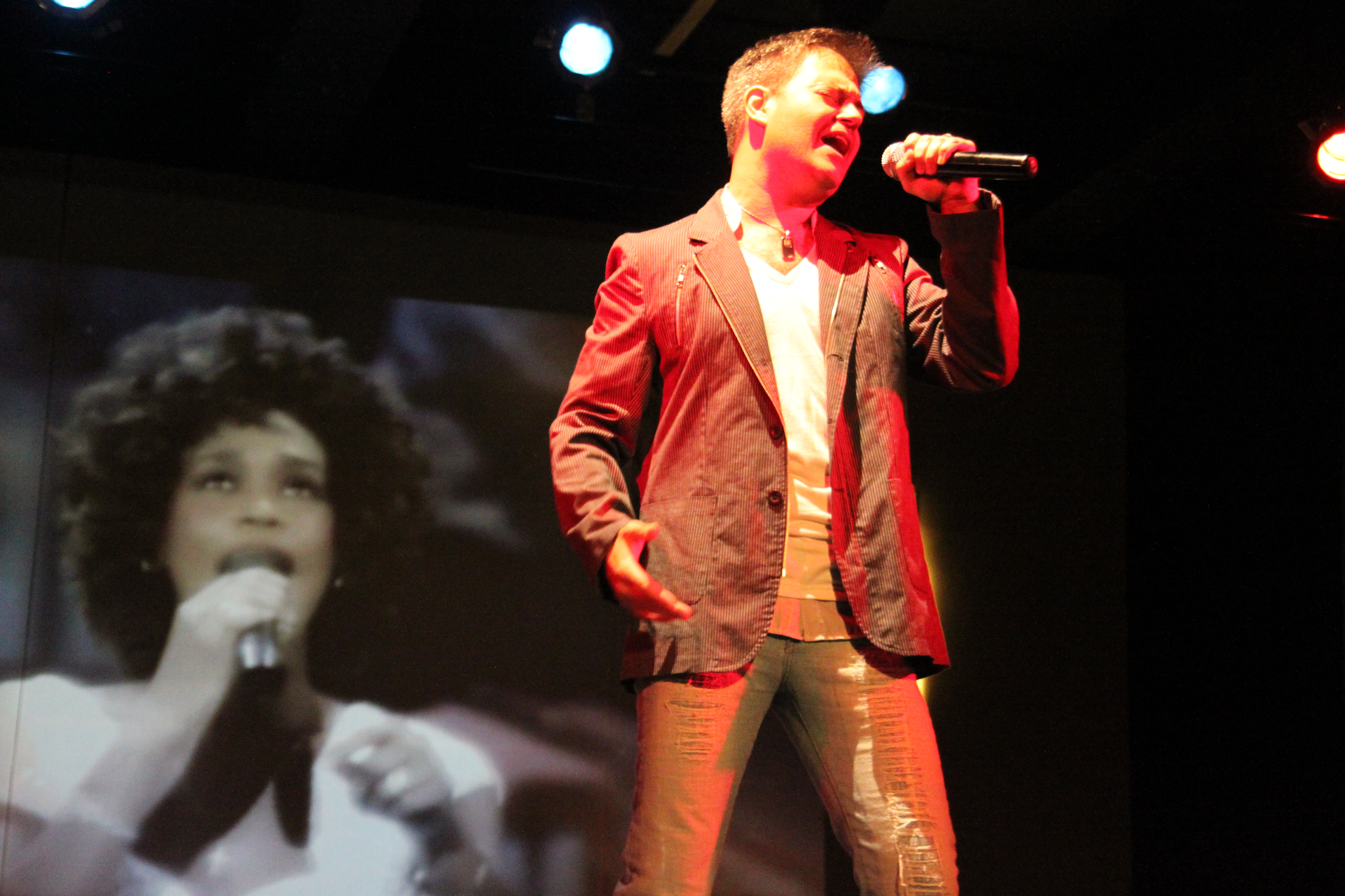 Carlos Morell, en un dúo virtual con Whitney Houston